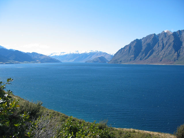 Lake Hawea, on the South Island of New Zealand in Central Otago, August 2005 (looking North). By John Holder. From